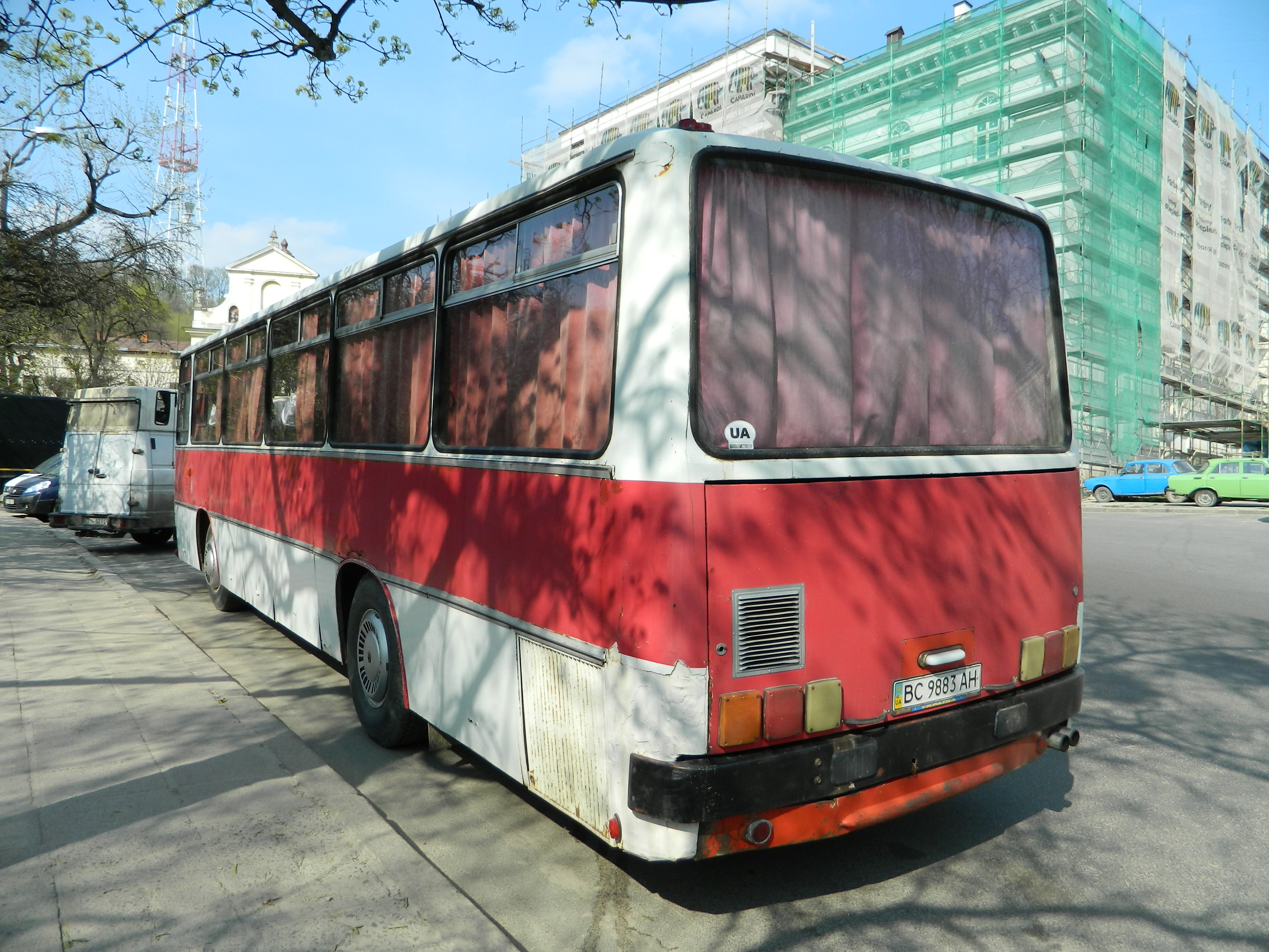 Ikarus-256 bus of an unknown bus operator in Lviv.